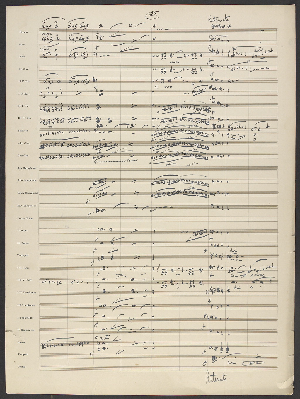 "Der Fliegende Hollander" (The Flying Dutchman) Overture. Manuscript arrangement of Richard Wagner's work in John Philip Sousa's handwriting. Page 25 of 37